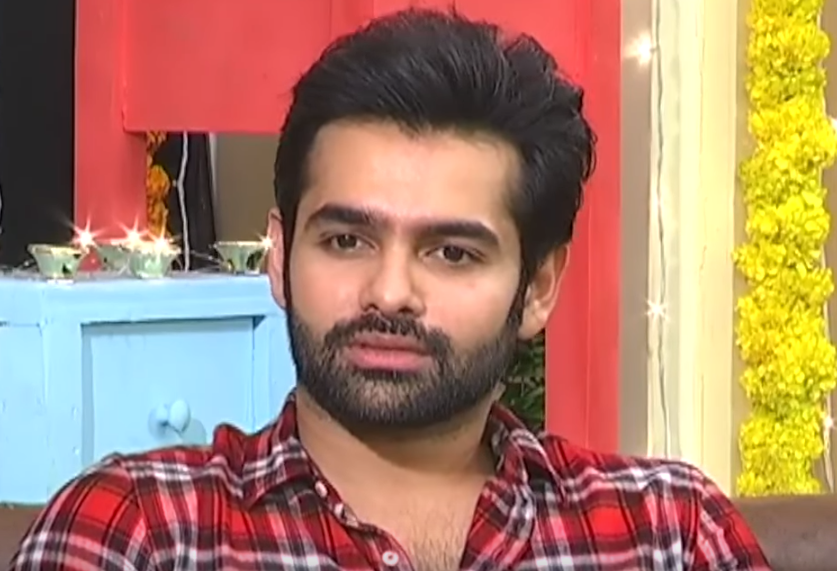 Ram at Unnadi Okate Zindagi interview